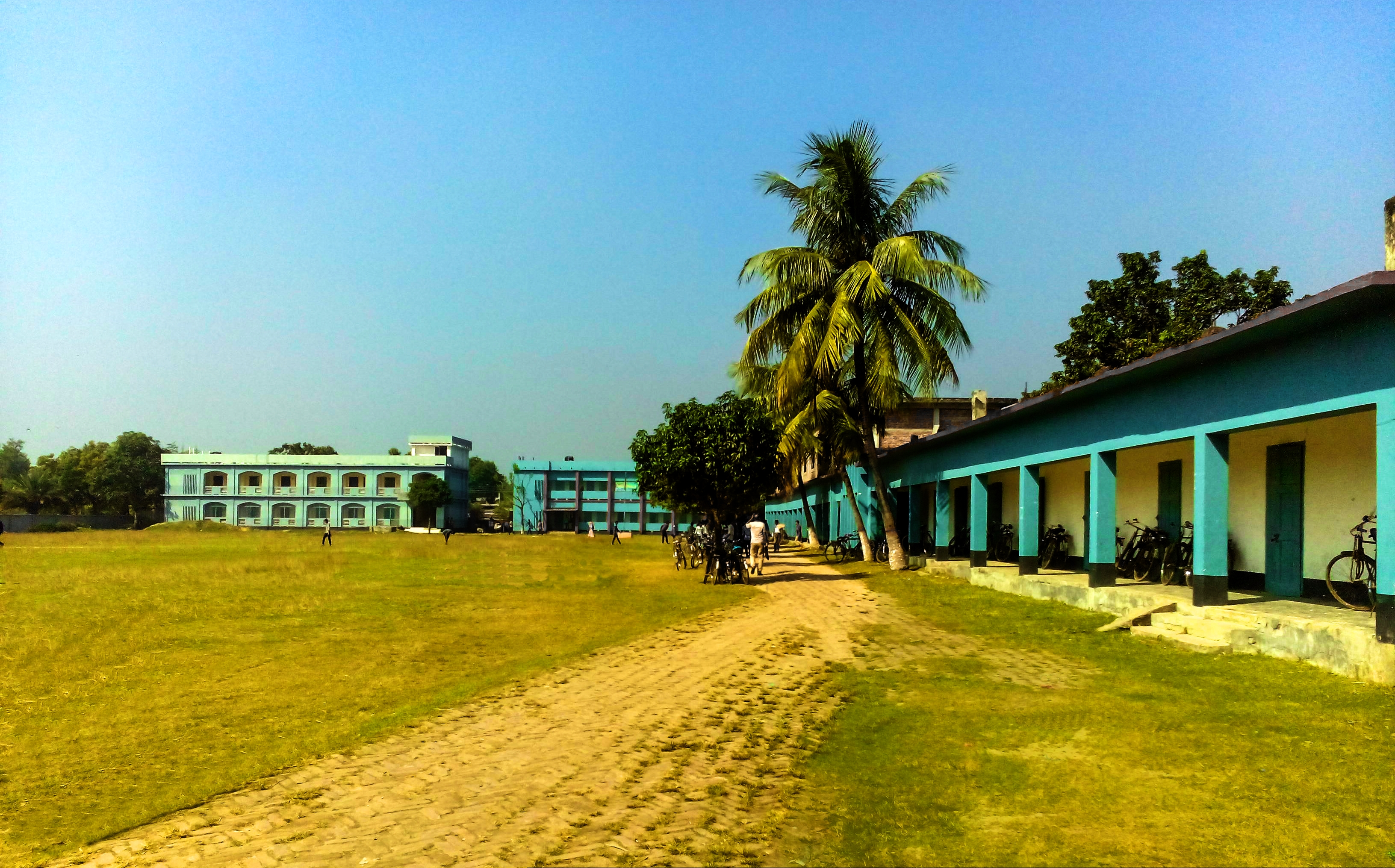 The front view of Nachole Government College situated in the district of Chapainawabganj, Bangladesh